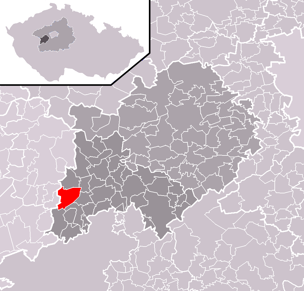 Location of Újezd municipality within Beroun District and administrative area of Hořovice as a Municipality with Extended Competence.